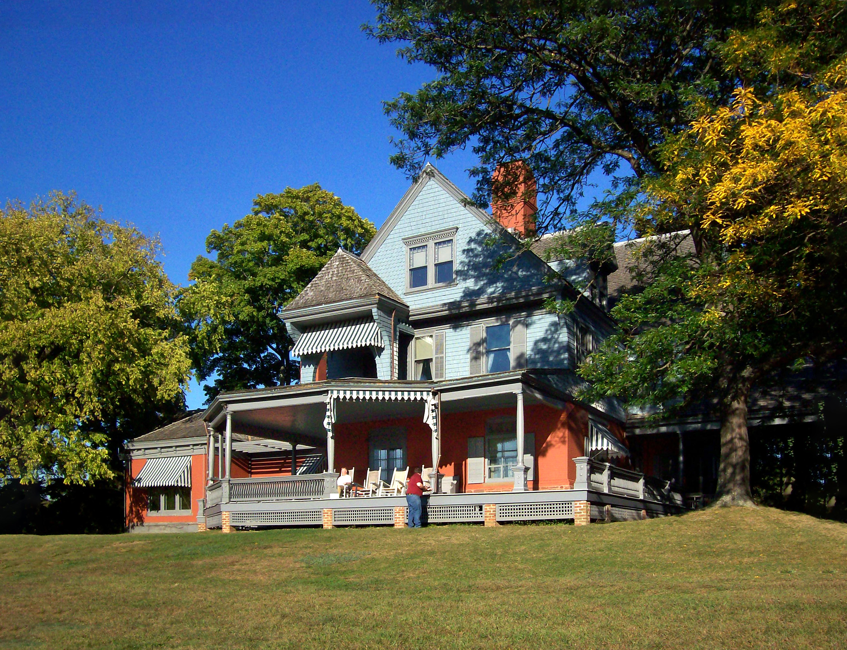 Sagamore Hill, where former US president Theodore Roosevelt used to live